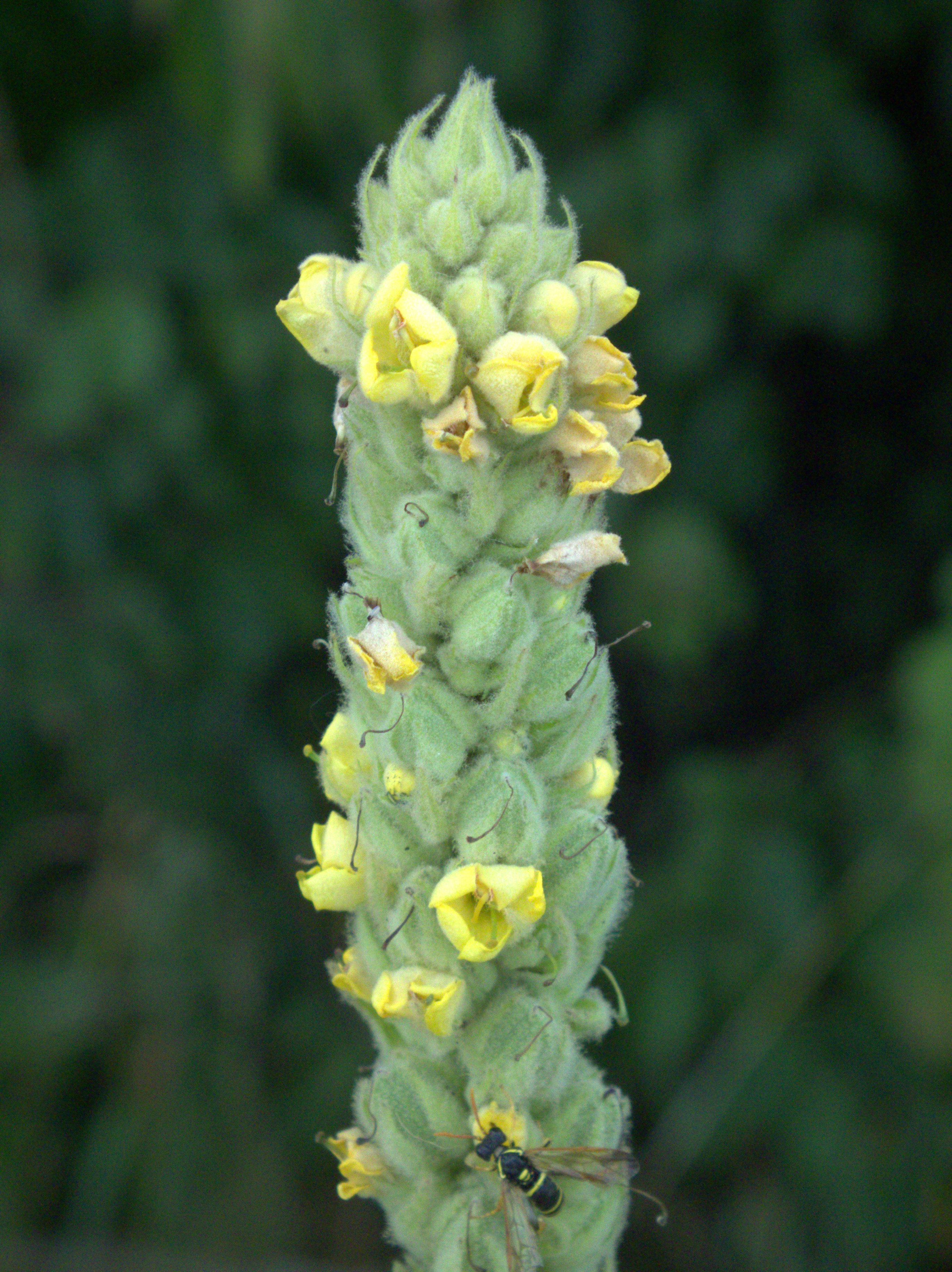 Great Mullein